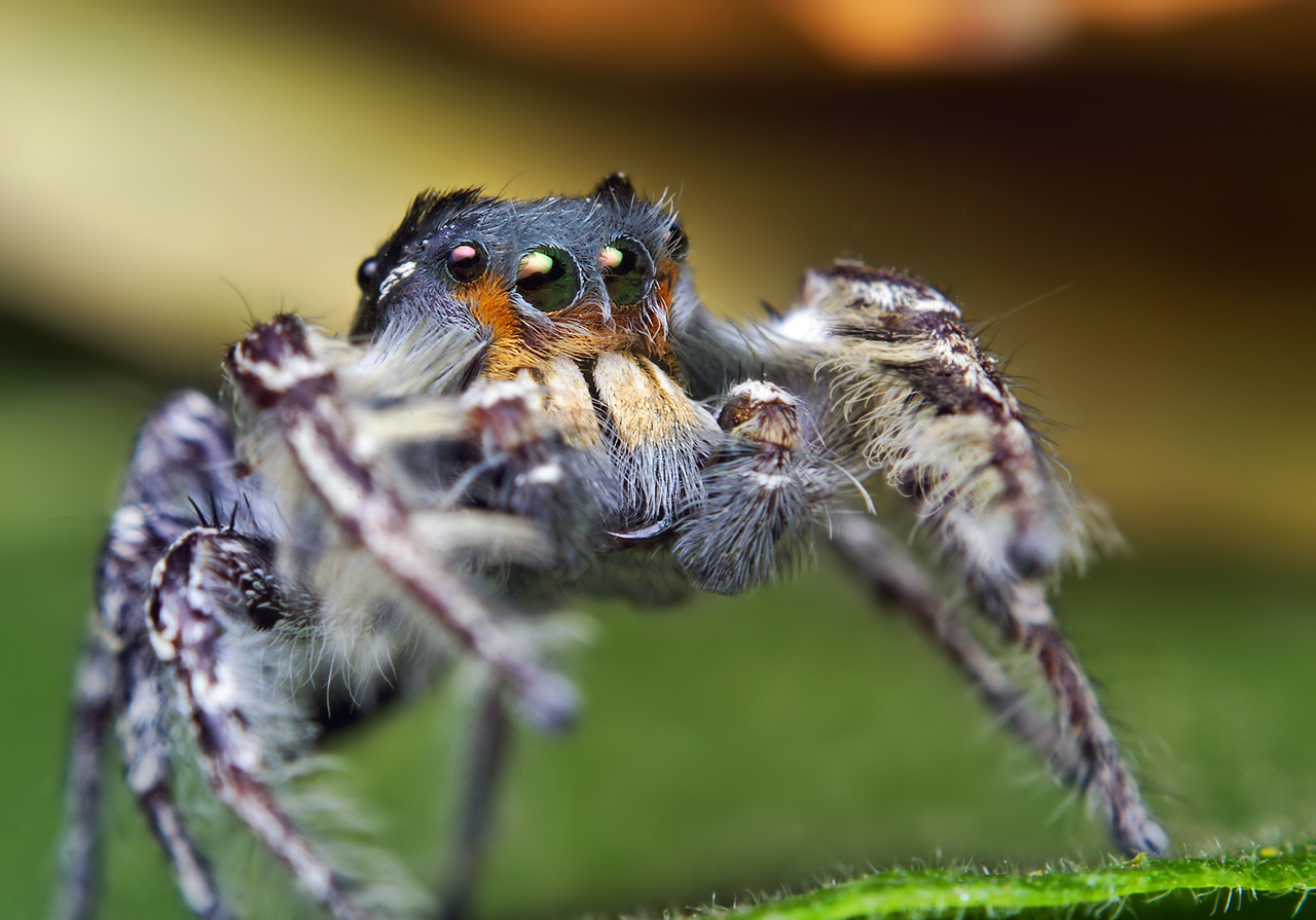 Photo of an adult male Phidippus putnami jumping spider.